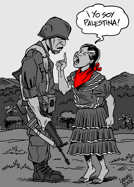 "We are all Palestinian".